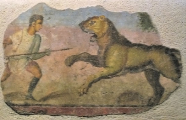 Painting of figting gladiator from Ancient Roma